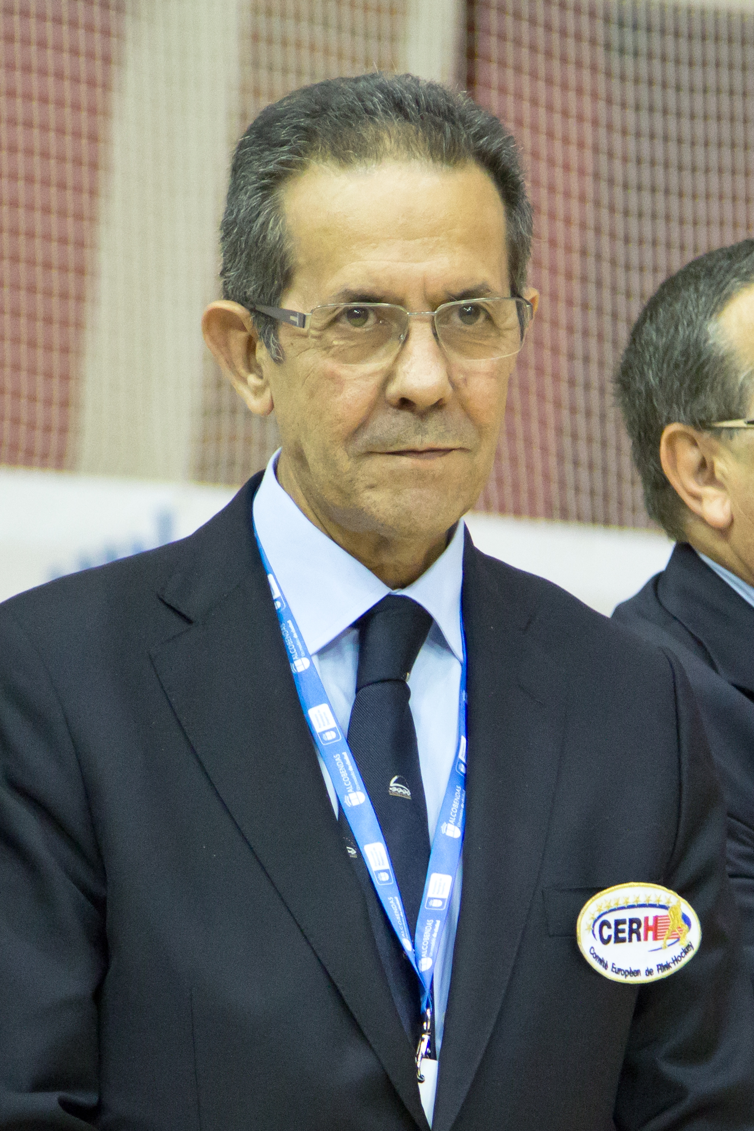 Fernando Graça, president of the Rink-Hockey European Committee (CERH).